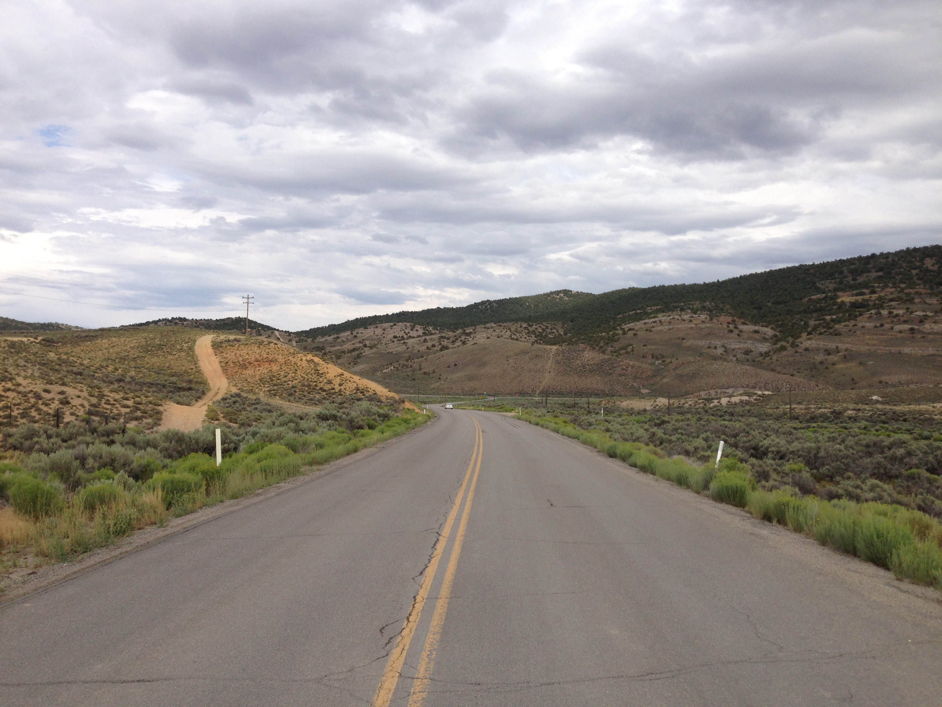 View east along former Nevada State Route 485 about 2.2 miles east of the end of pavement in Ruth, Nevada